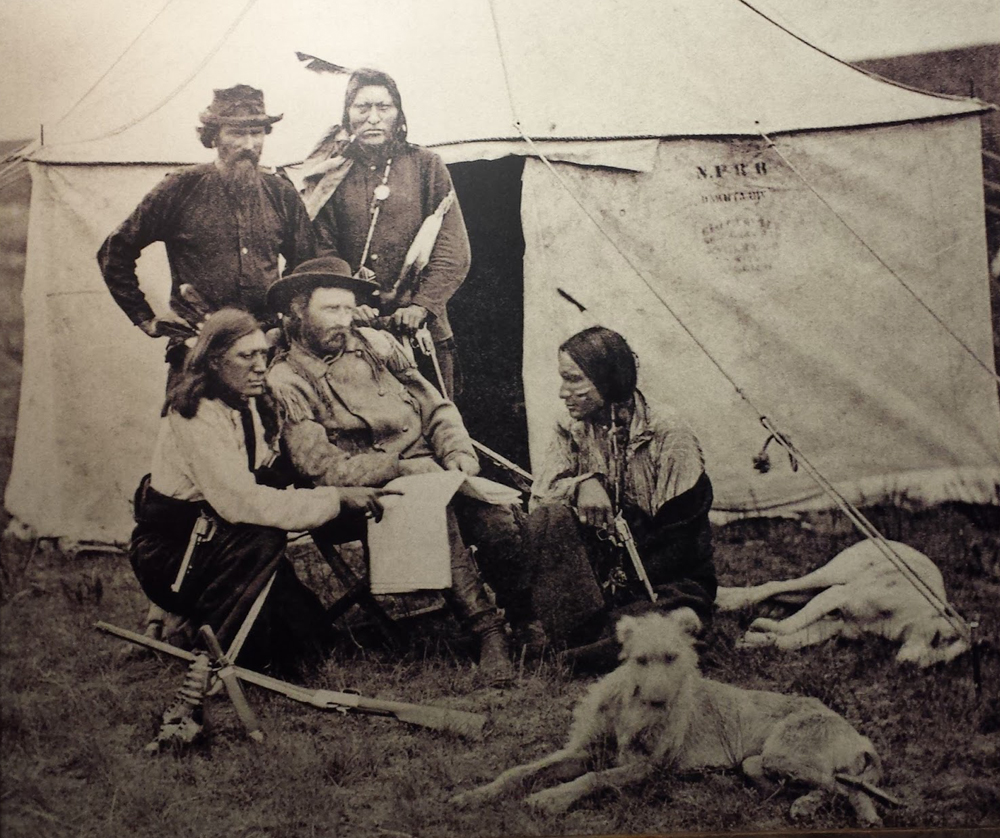 General Custer, Staghounds in the foreground